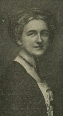 Maria Czaplicka, Polish anthropologist, 1919